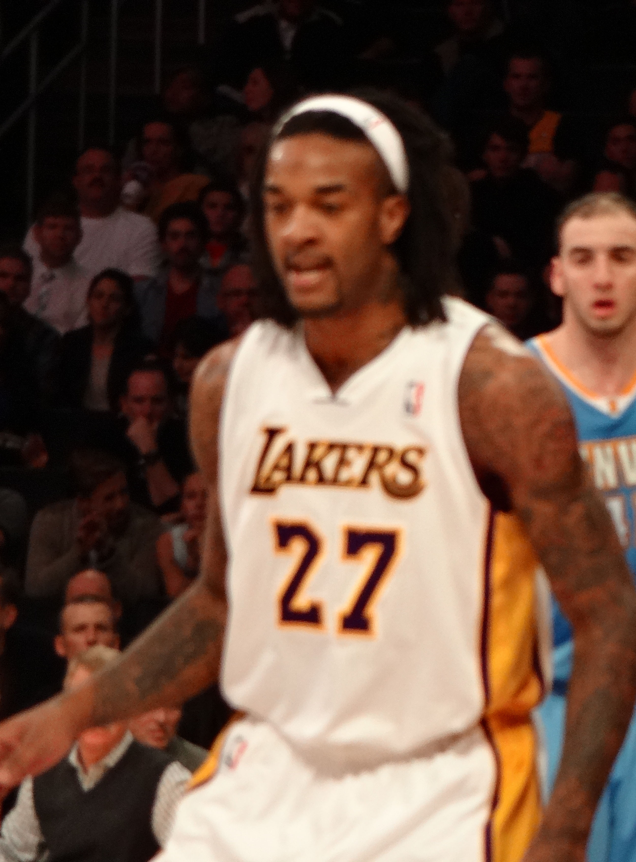 Los Angeles Lakers vs Denver Nuggets at the Staples Center. Jordan Hill.